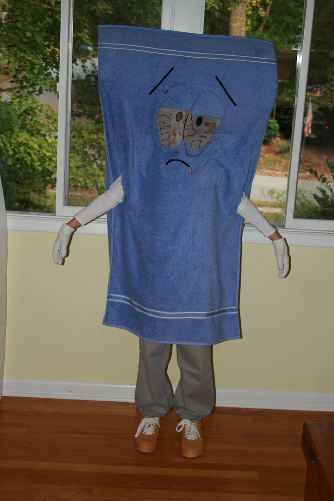 Halloween costume of Towelie, South Park character